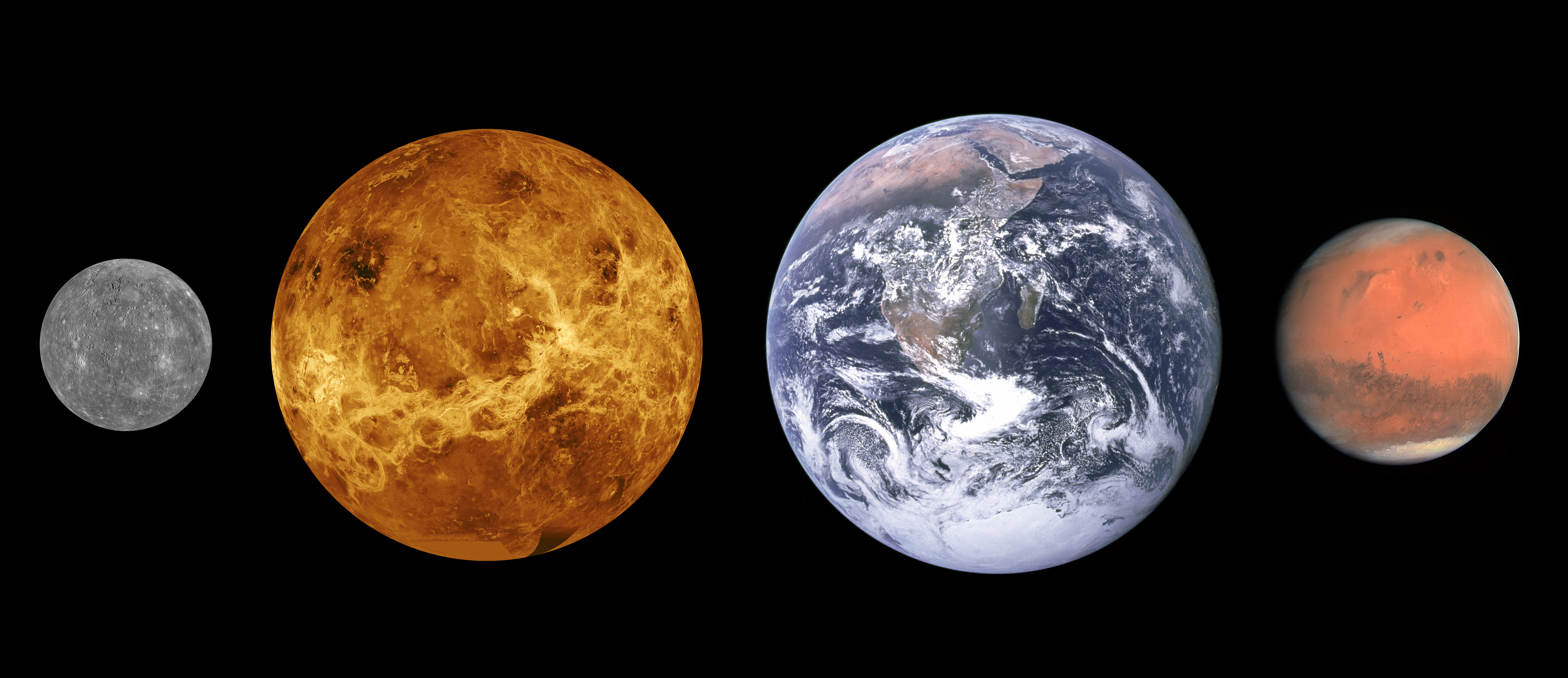 This diagram shows the approximate relative sizes of the terrestrial planets, from left to right: Mercury, Venus, Earth and Mars. Distances are not to scale. A terrestrial planet is a planet that is primarily composed of silicate rocks. The term is derived from the Latin word for Earth, "Terra", so an alternate definition would be that these are planets which are, in some notable fashion, "Earth-like". Terrestrial planets are substantially different from gas giants, which might not have solid surfaces and are composed mostly of some combination of hydrogen, helium, and water existing in various physical states. Terrestrial planets all have roughly the same structure: a central metallic core, mostly iron, with a surrounding silicate mantle. Terrestrial planets have canyons, craters, mountains, volcanoes and secondary atmospheres.